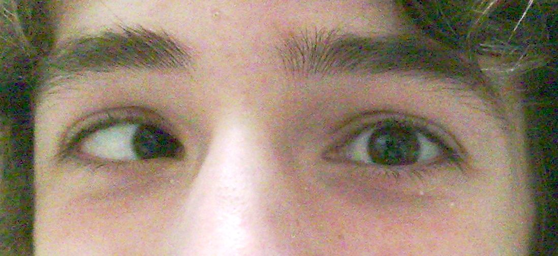 Esotropia of right eye